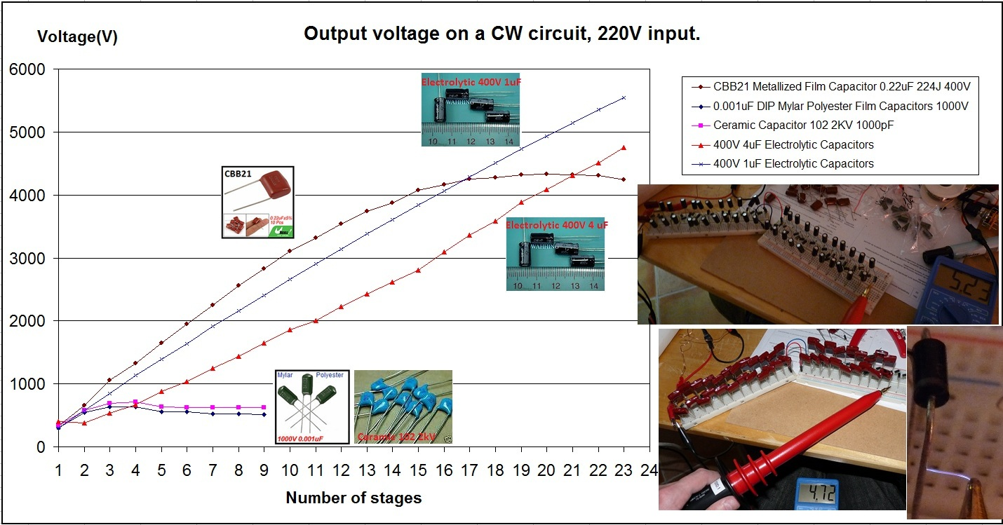 The graph show the output of a CW circuit made of different capacitors, using 220V input. The HV probe is a 1000:1.